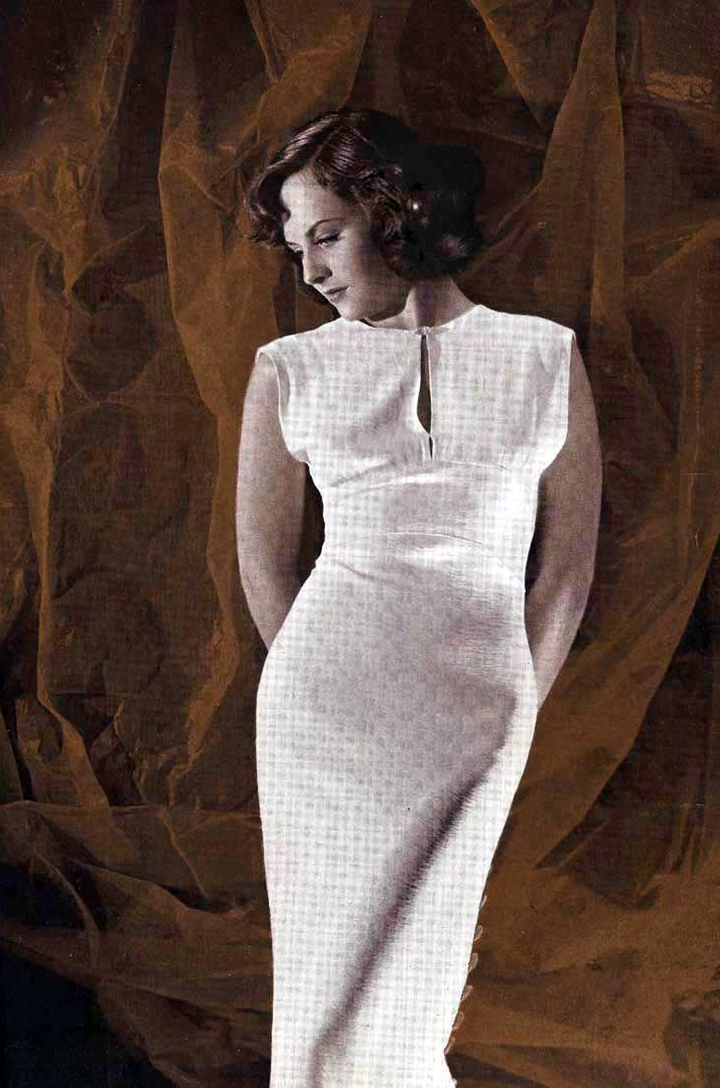 Paulette Goddard on the front cover of Cinegraf magazine, published in Argentina